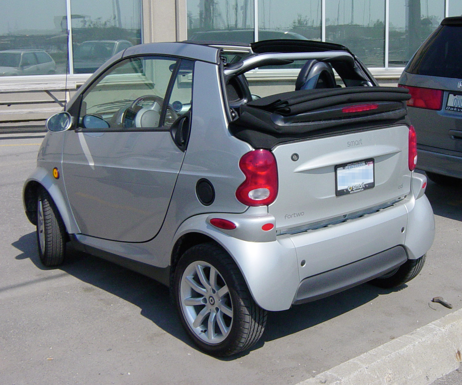 Smart car convertible with lowered top, left rear quarter view. Seen in Toronto, Canada, Spring 2005. Image by User:Leonard G. Images in this series: Convertiblerear quarter Front view Rear viewclose Tachometerand clock stupid compariisoj